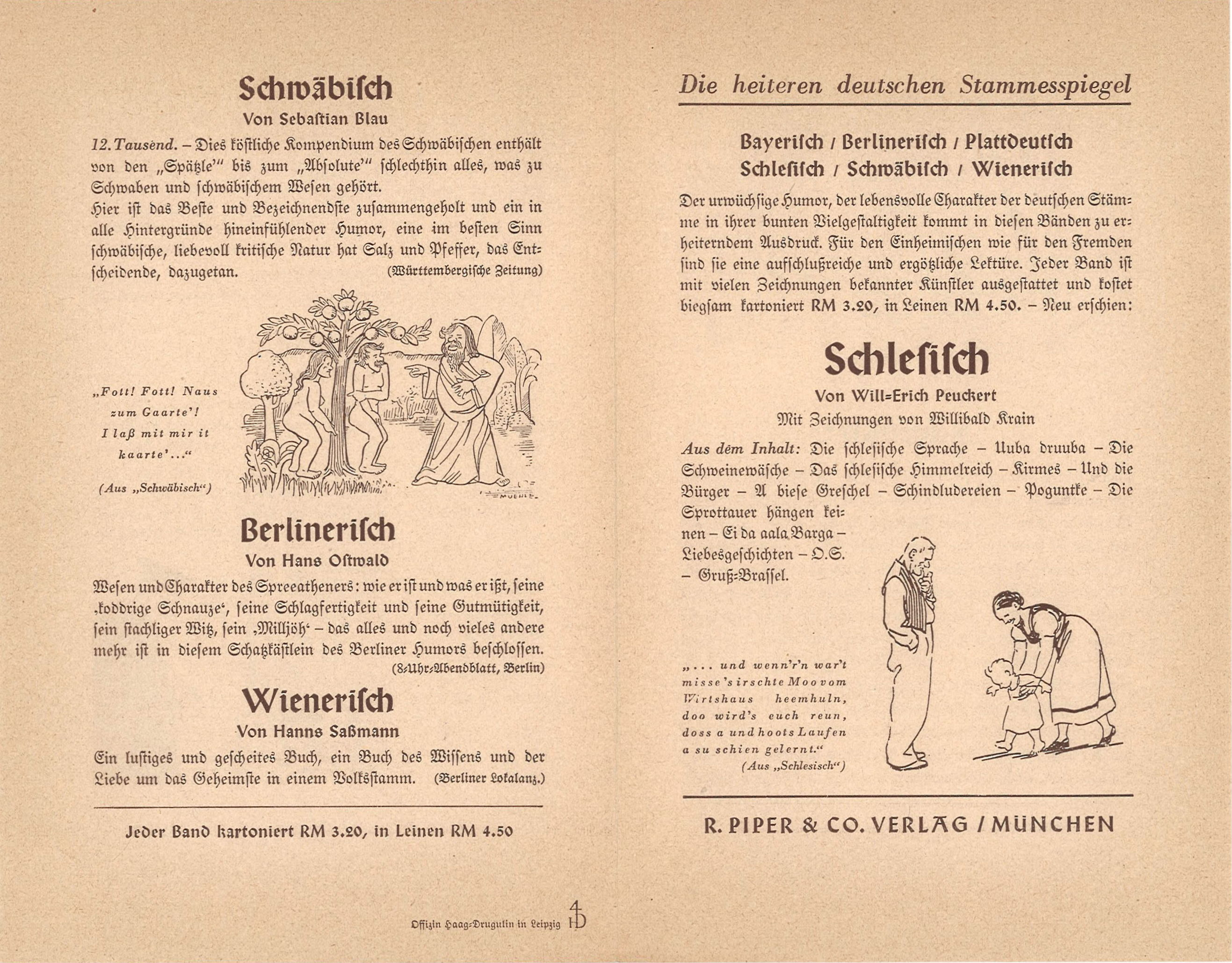 Advertizement (1937) of the series "Was nicht im Wörterbuch steht"